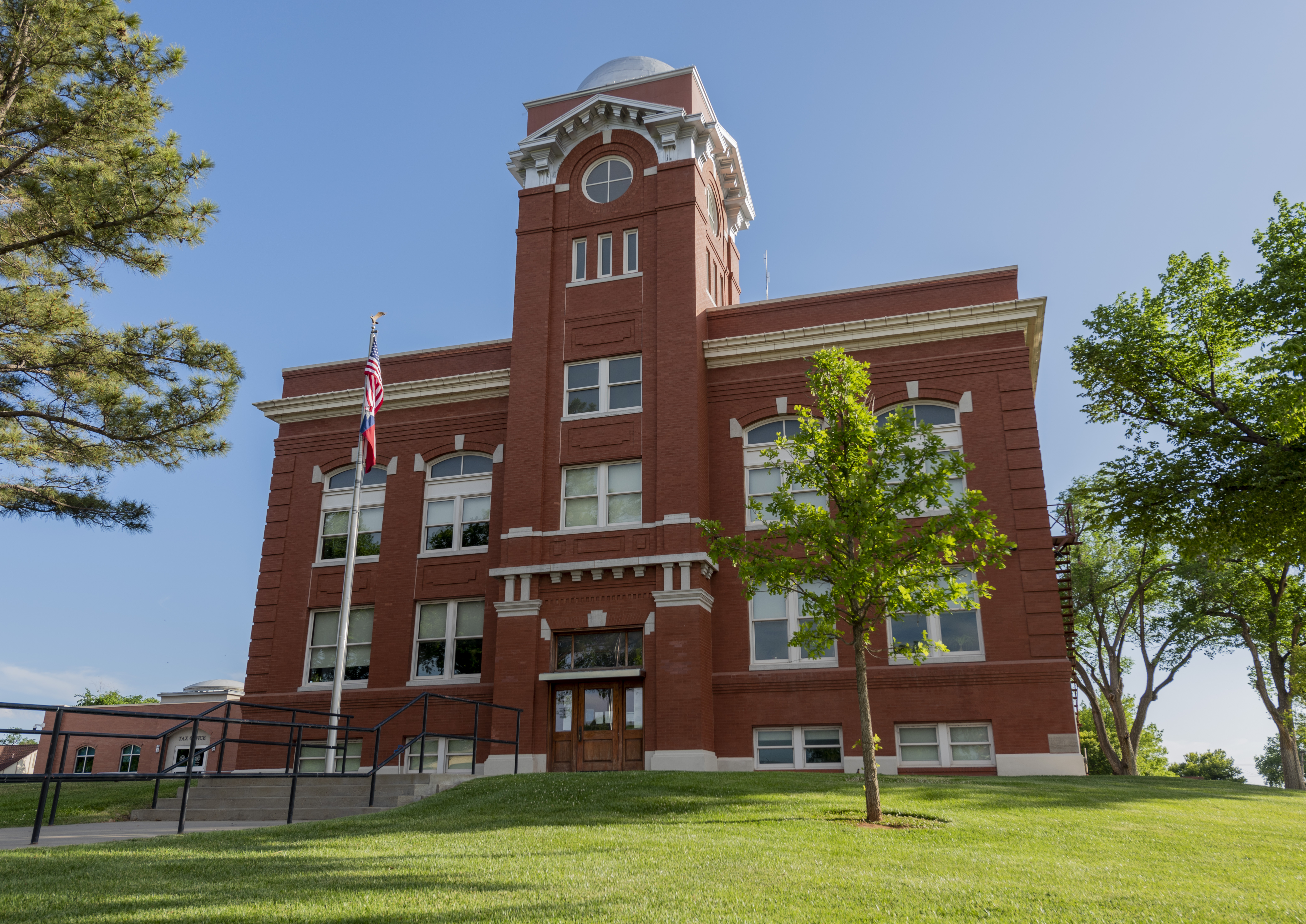 Image of the Hemphill County, Texas courthouse located in Canadian, Texas. Taken in May 2020